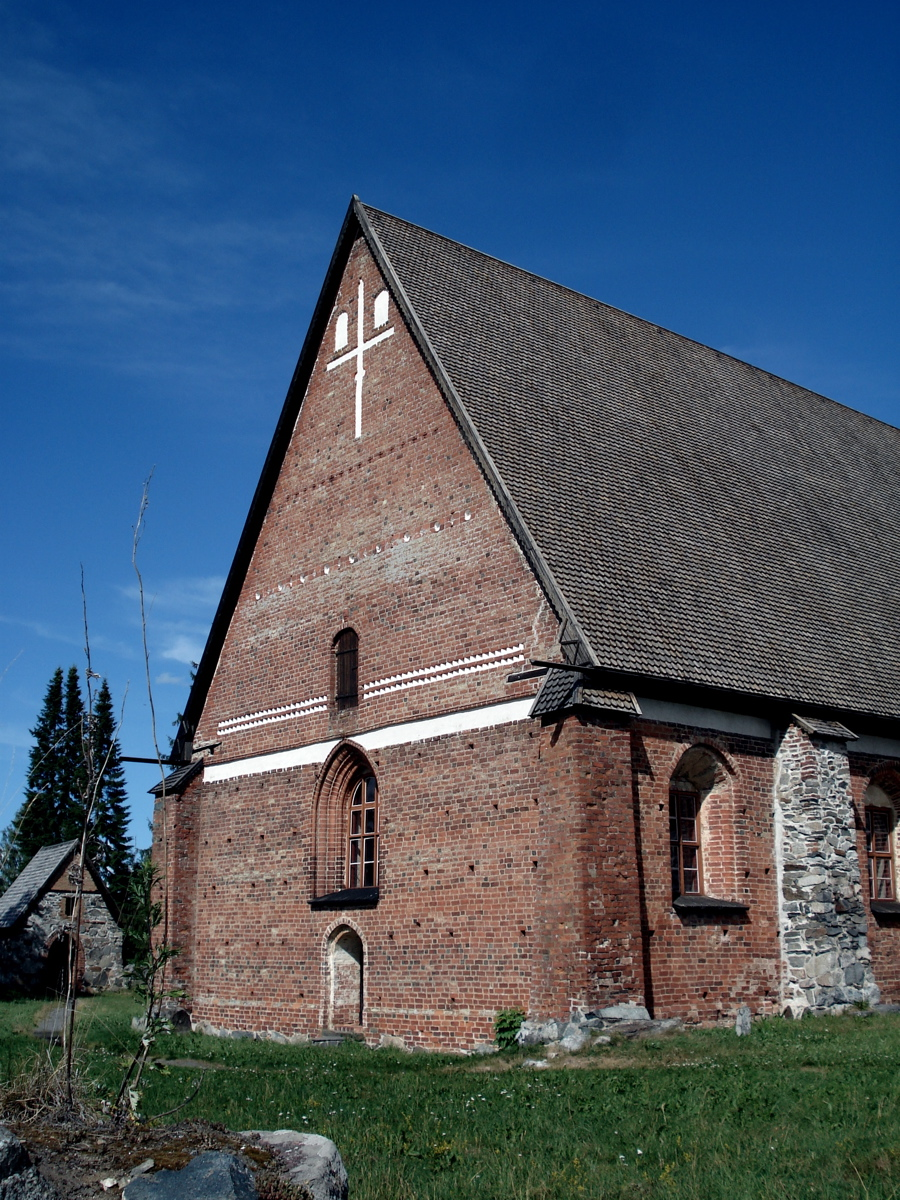 Church of the Holy Cross (Pyhän Ristin kirkko) in Hattula, Finland.